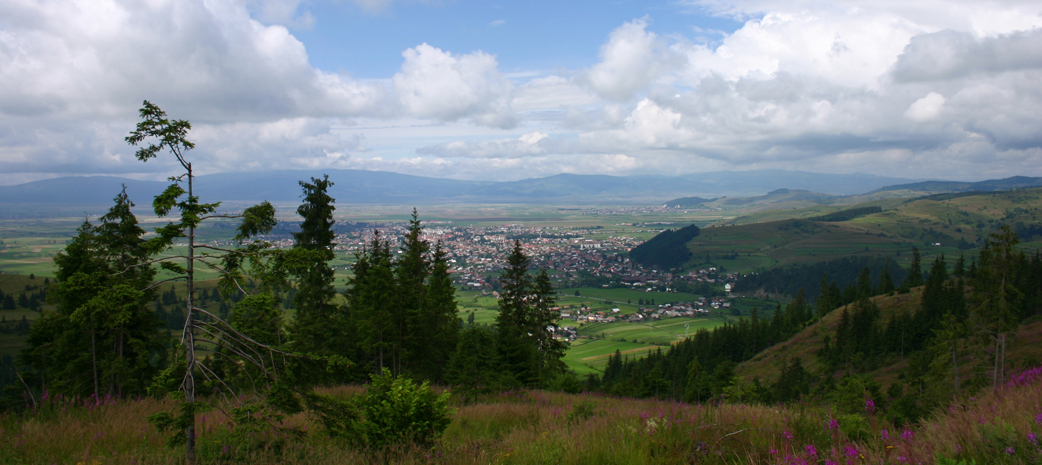 View of Gheorgheni from the Giurgeu Mountains, Transylvania, Romania